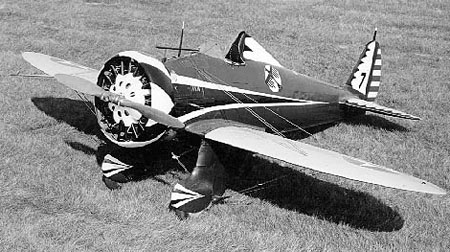 Boeing P-26 of the 34th Pursuit Squadron, 17th Pursuit Group